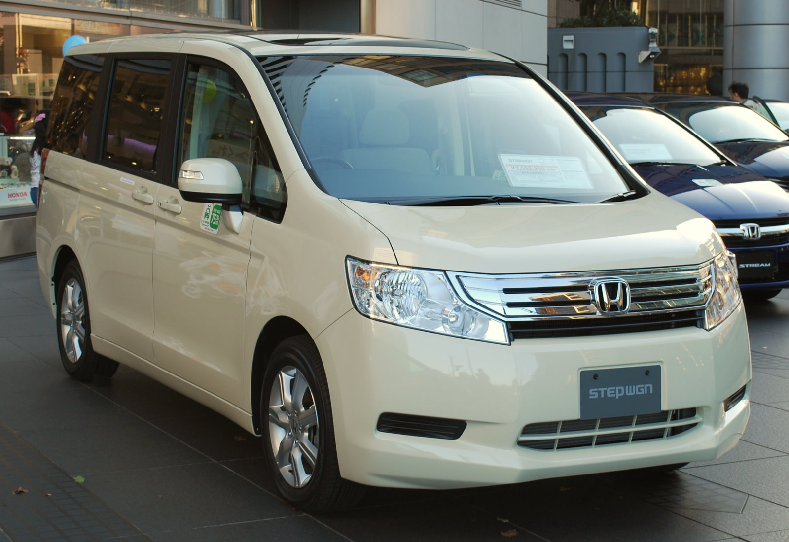 4th generation Honda Stepwgn